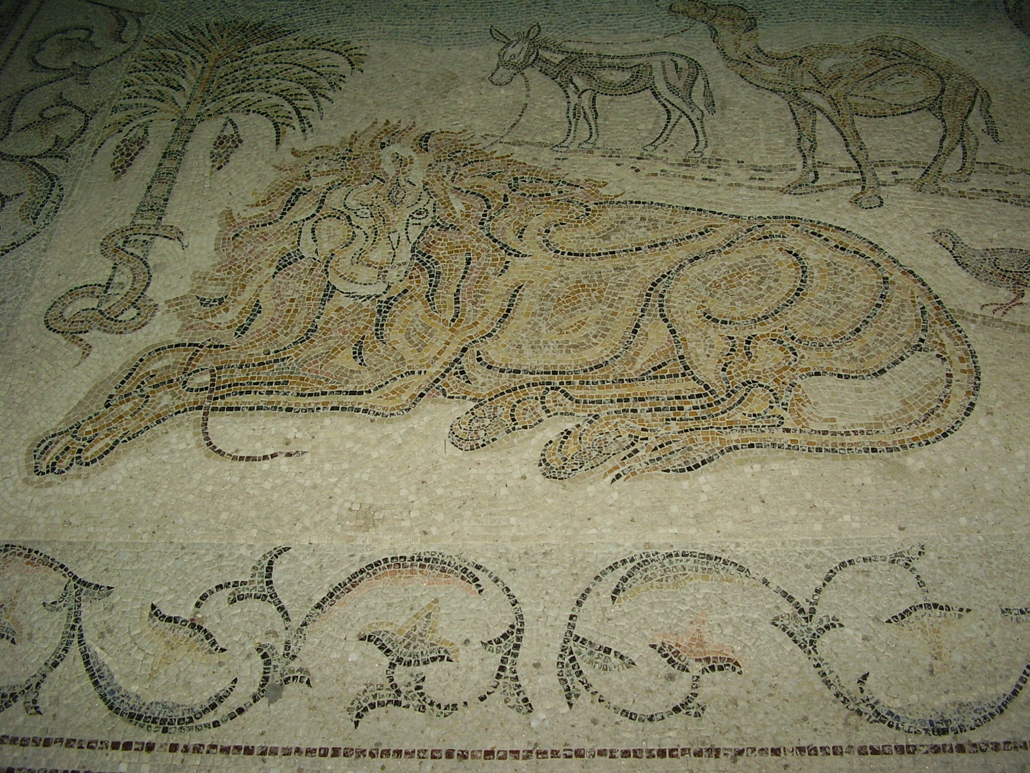 Dier Hajleh Monastery in Jordan Valley